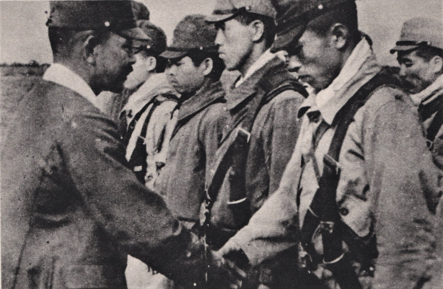 Vanda Corps pilot shaking hands with Commander Tominaga before the sortie